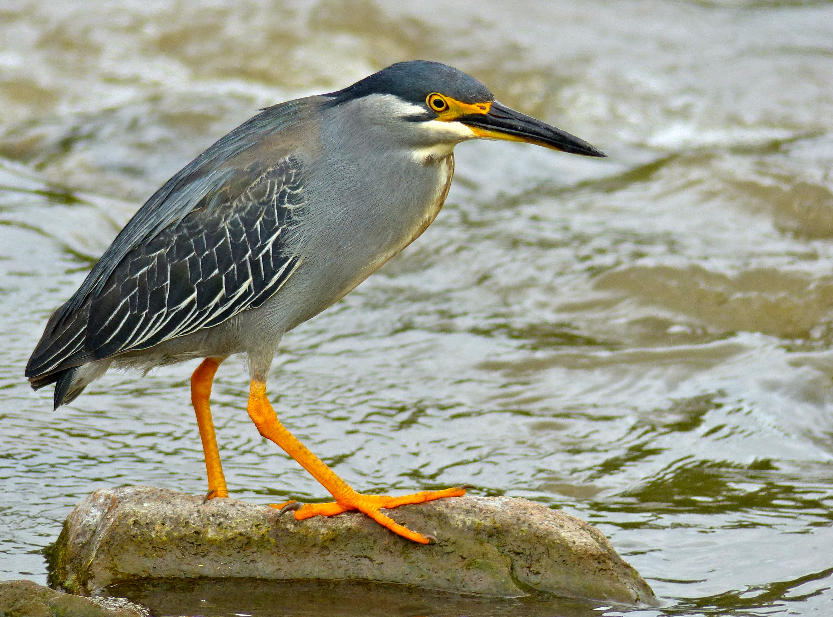 S41 Road East of Satara, Kruger NP, SOUTH AFRICA